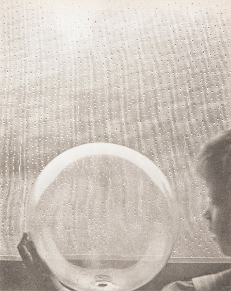 further information